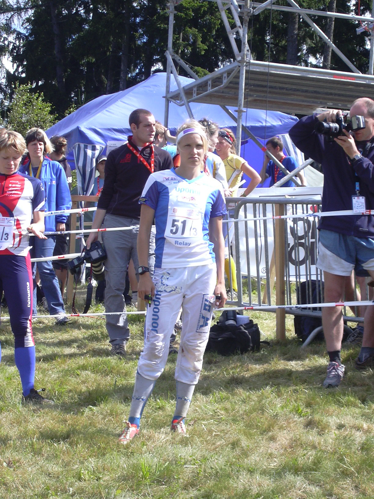 World Orienteering Championships 2008 in Olomouc, Czech Republic. On photo Minna Kauppi.